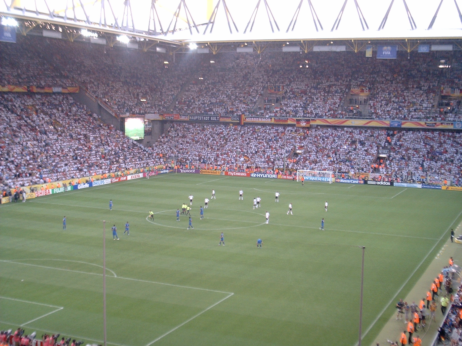 The Signal Iduna Park during the semi-final match Italy-Germany